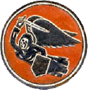 Emblem of the 83d Bombardment Squadron (World War II)